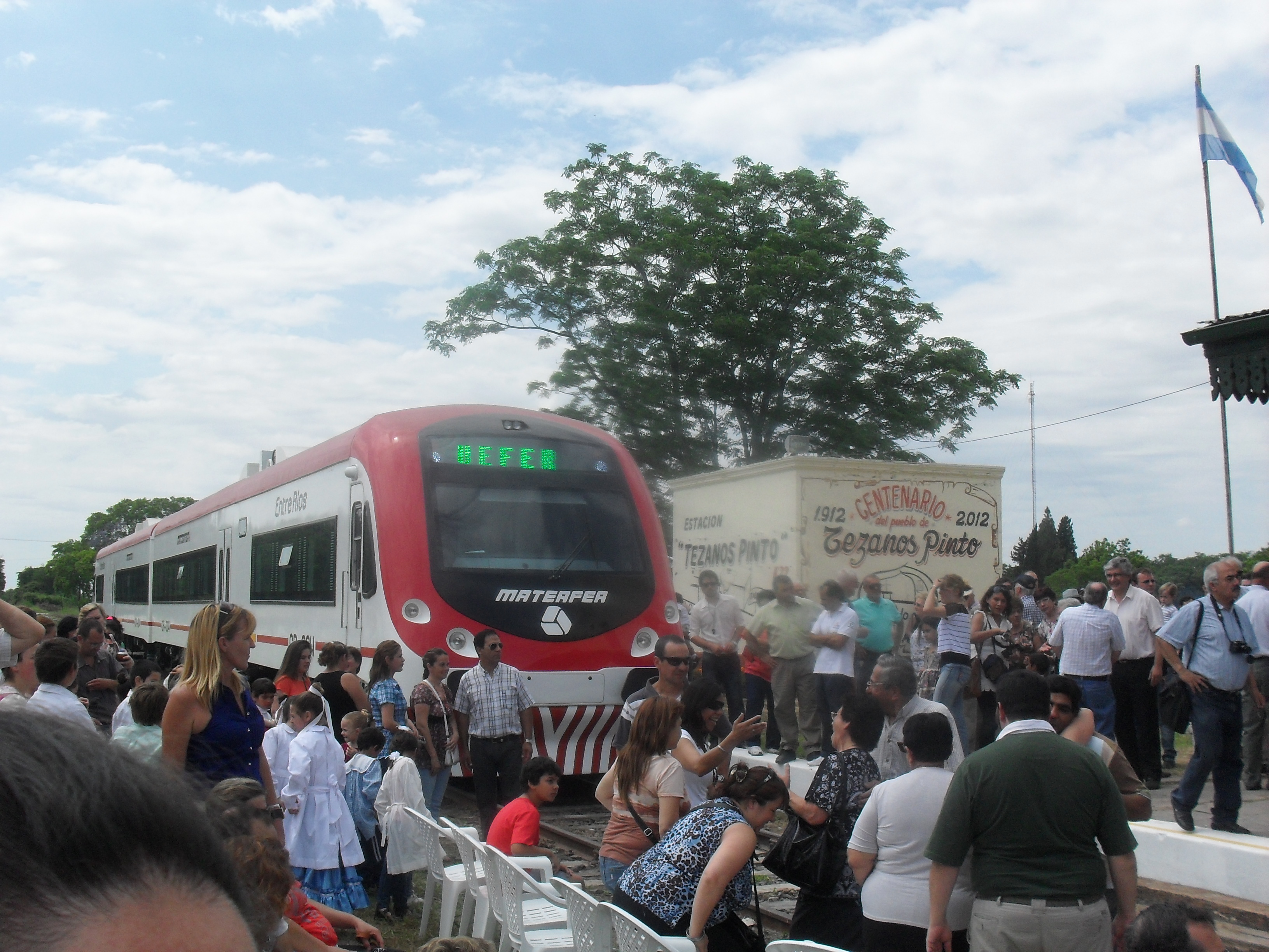 El tren actual junto con las personas del lugar.